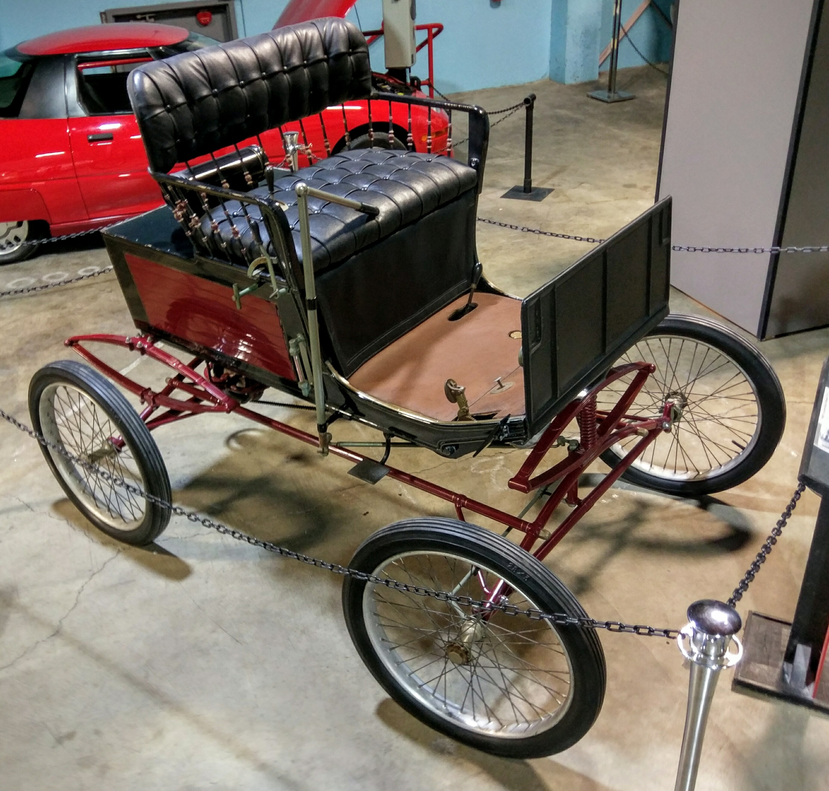 1900 Locomobile steam car. Model 2 Stanhope spindle seat. On display at the California Automobile Museum. Photo by Jim Heaphy.